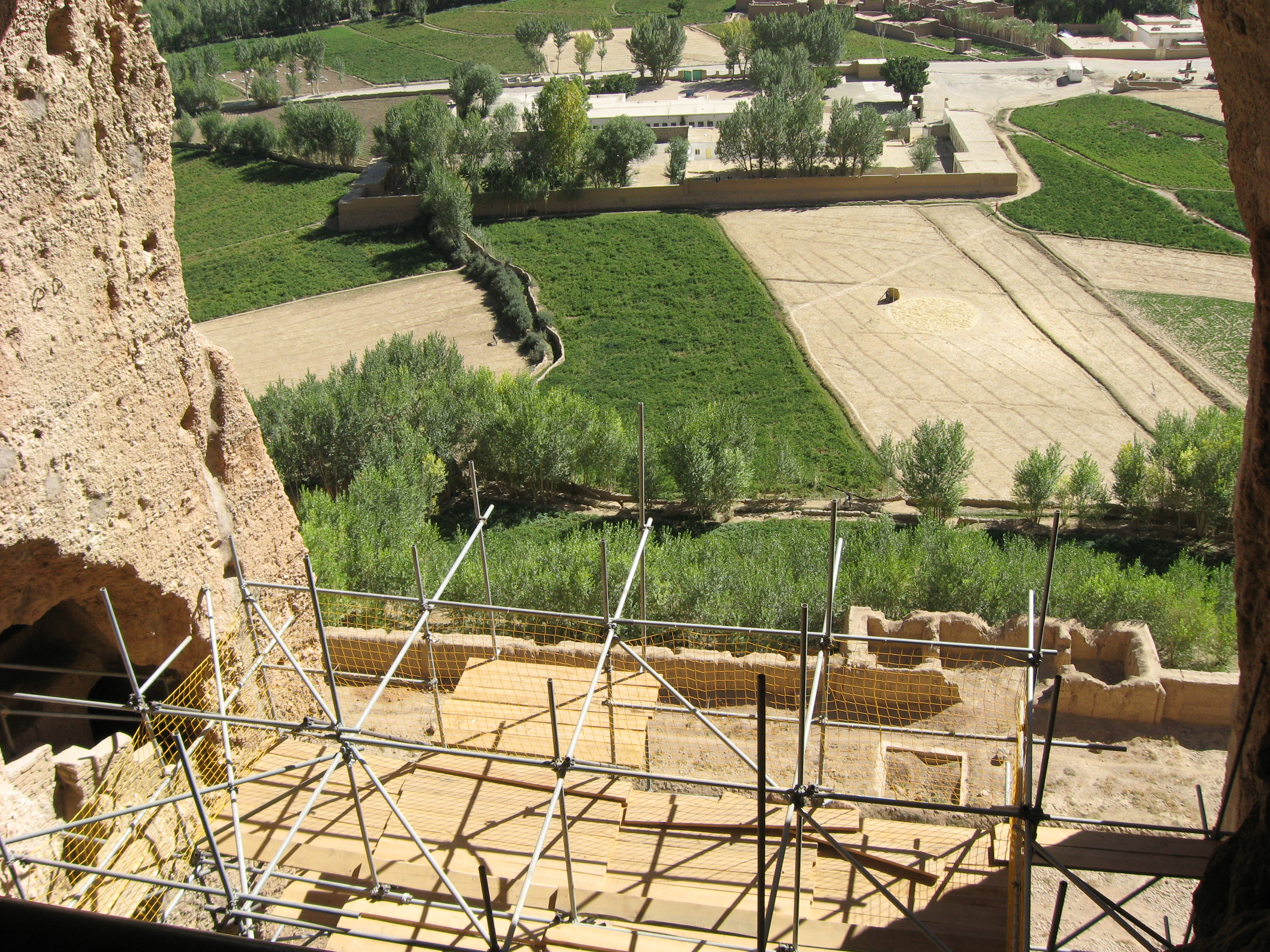 It took the Taliban 4 attempts to completely destroy the ancient Buddhas. They believed only infidels would worship these idols.